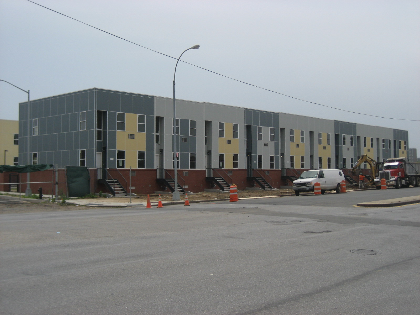 Nehemiah Homes under construction in the Spring Creek section of East New York in Brooklyn, NY